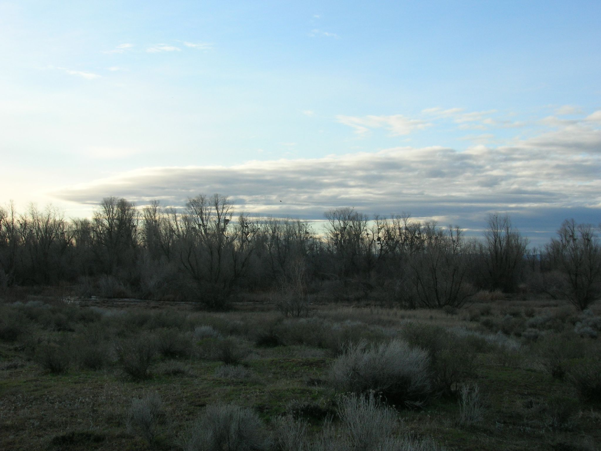 Sagebrush steppe with Black-crowned Night-Heron (Nycticorax nycticorax) rookery in the distant trees Potholes State Park, Washington i040206 289